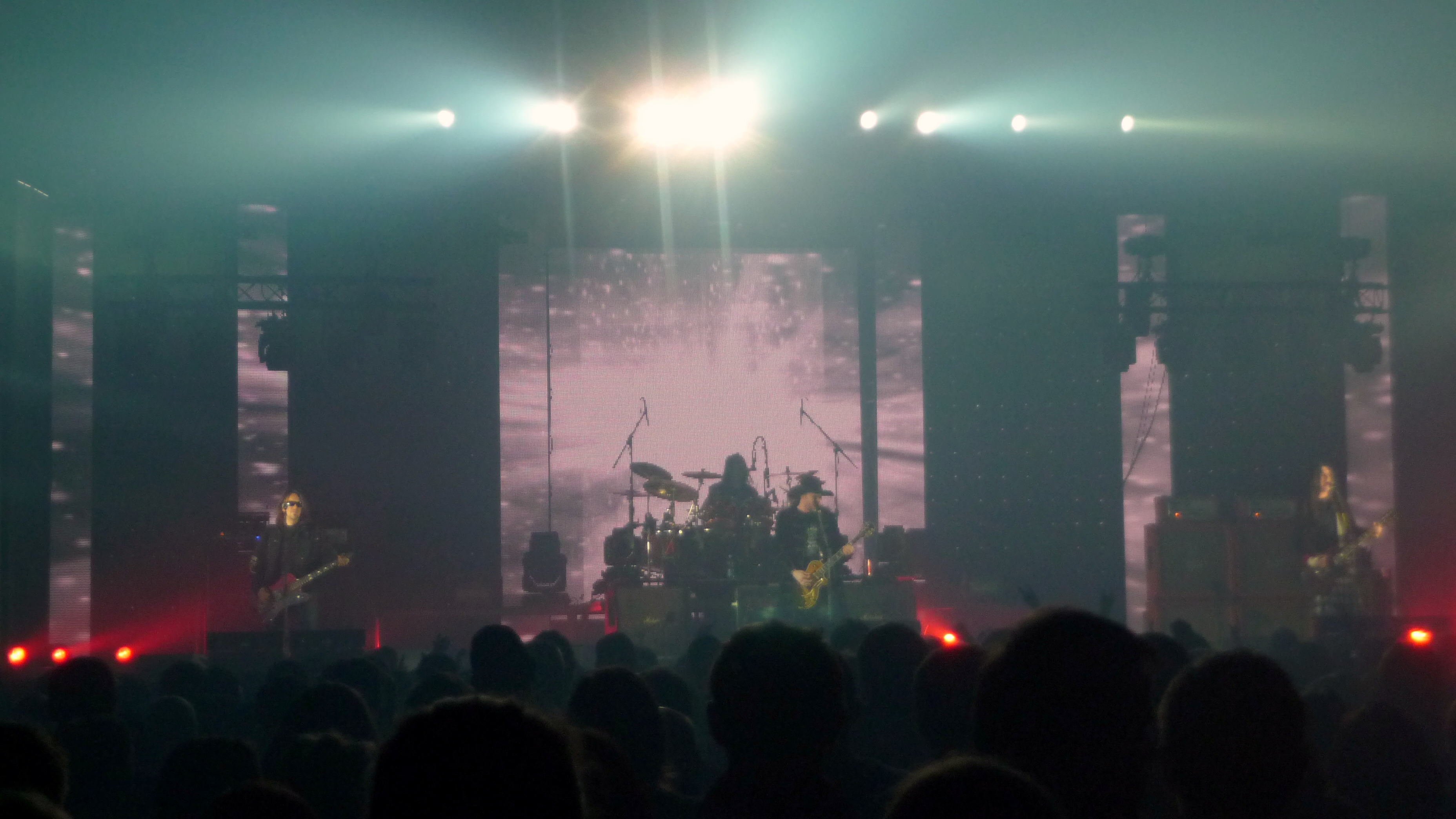 Concert of Czech rock musical band Wanastowi Vjecy within the concert tour 2012 "Letíme na Venuši" (We're flying on Venus) in City gym Vodova in Brno